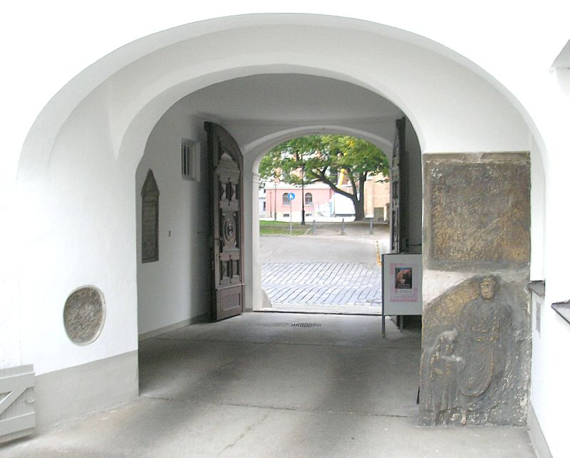 Peutinger house (Augsburg, Peutingerstr. 11, Bavaria, Germany). The gateway, looking north